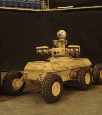 XM1219 Armed Robotic Vehicle